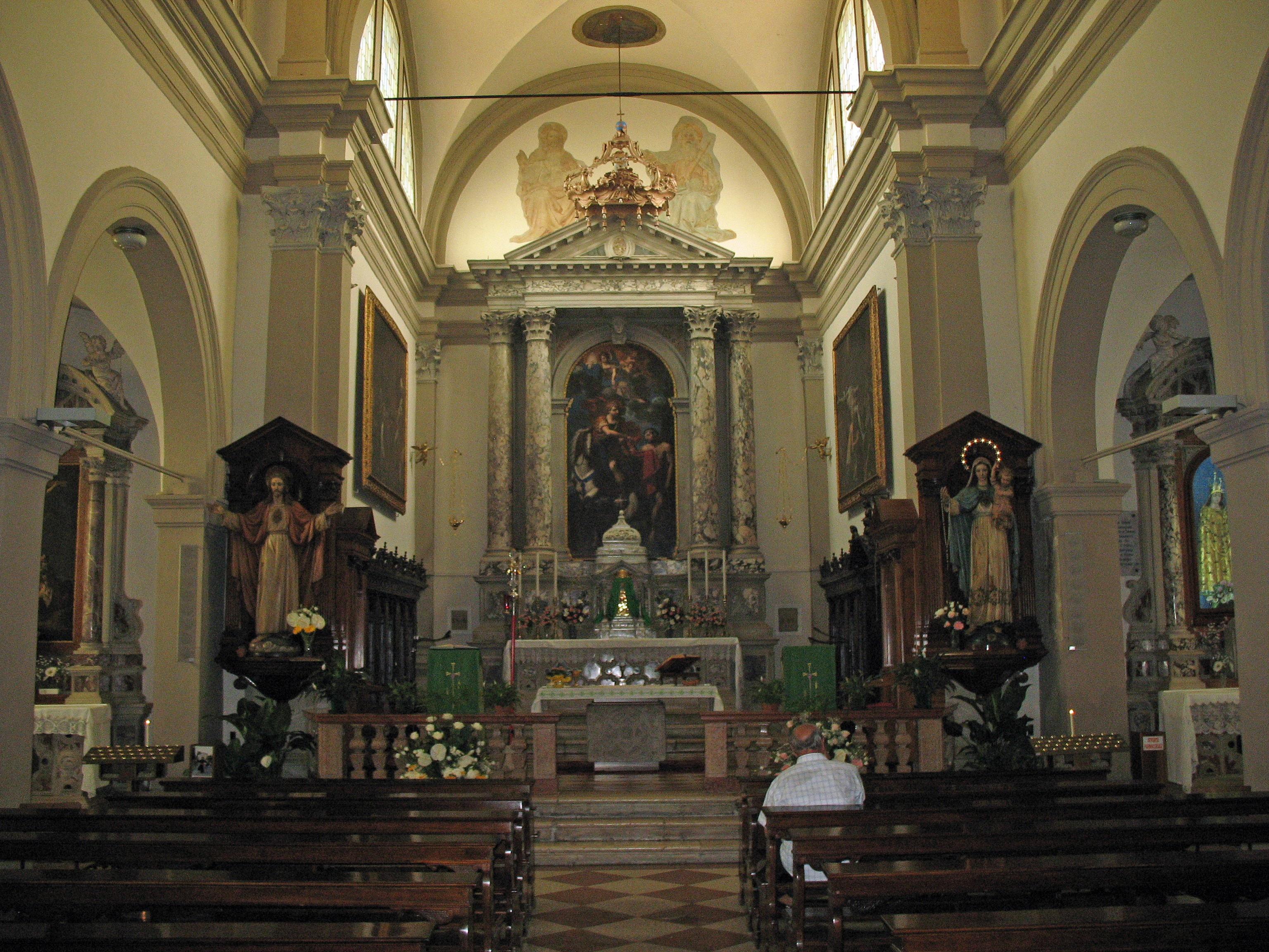 The parish church of San Martino in Sambughè (Treviso). Main altar:painting by Michele Desubleo. Wooden sculptures by Ludwig Moroder and Vinzenz Moroder. Michele Desubleo (circa 1601 date QS:P,+1601–00–00T00:00:00Z/9,P1480,Q5727902–1676) Alternative names Michel Desoubleay, Michele Desublei, Michele di Giovanni Desublei, Michele Desubleo, Michele de Sobleau, Michele di Giovanni de Sobleau, Michele de Sobleo, Michele de Subleo, Michele di Giovanni de Subleo, Michele FiammingoDescriptionItalian painter and drawerDate of birth/death between 1601 and 1602 date QS:P,+1601-00-00T00:00:00Z/8,P1319,+1601-00-00T00:00:00Z/9,P1326,+1602-00-00T00:00:00Z/9 10 November 1676Location of birth/death Maubeuge ParmaWork location Rome (1621-1635), Bologna (1636-1654), Venice (1654-1663), Parma (1665-1676)Authority control : Q633742 VIAF: 3375840 ISNI: 0000 0000 8194 4484 ULAN: 500023997 LCCN: nr2001017906 GND: 12329245X WorldCat creator QS:P170,Q633742